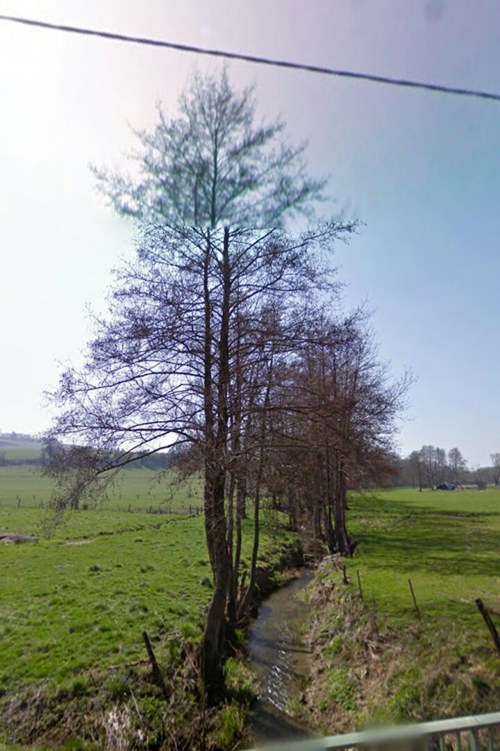 A view of the Bièvre Creek, from the D12 Rd (in the boundaries of that commune called La Village St.) crossing him nearly downstream the confluence of the Petit Moulin Creek with it, at the SW outstrikts of Oches, the Ardennes dept, Grand Est, France